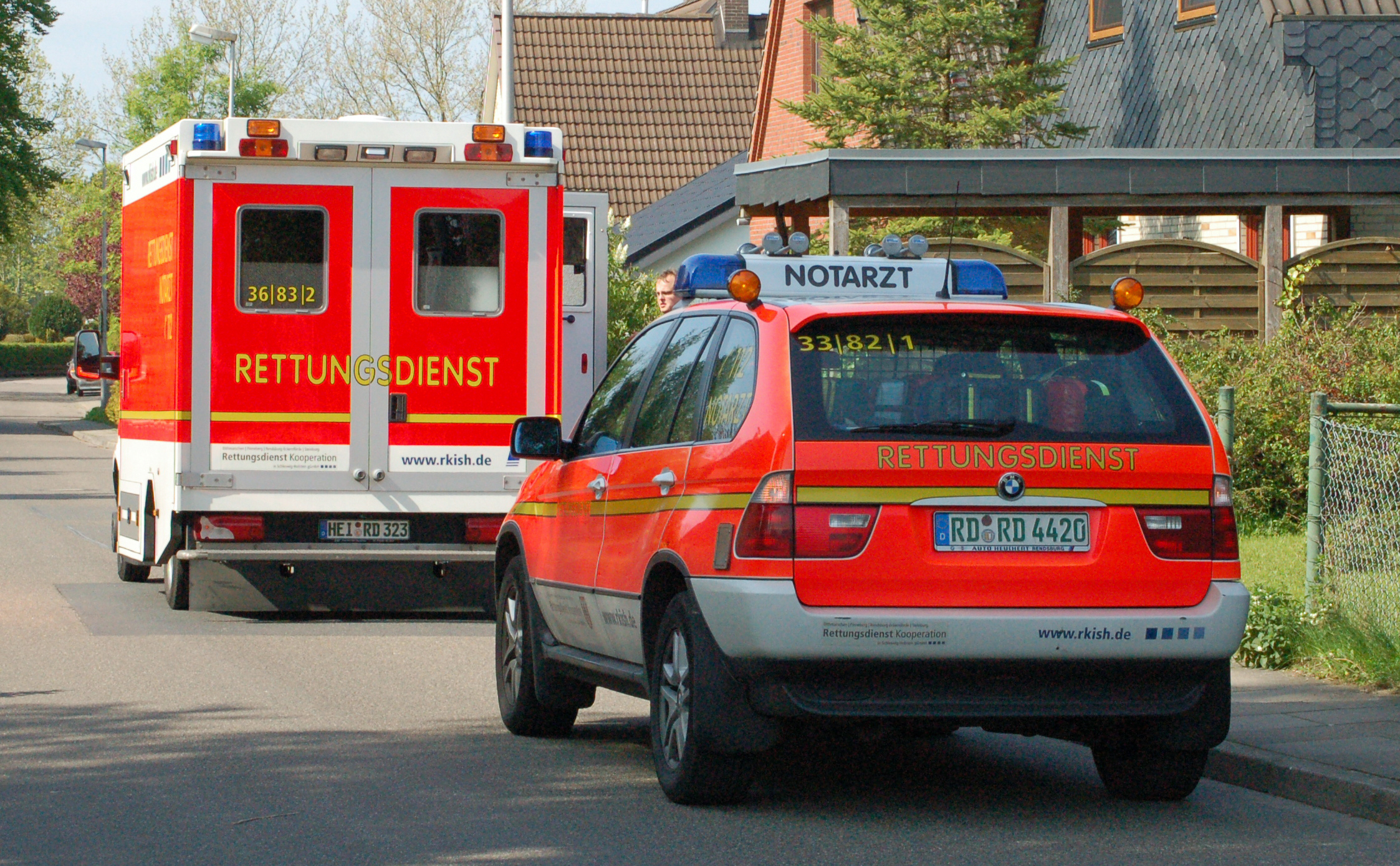 At Uetersen, Schleswig-Holstein, Germany: BMW E53 and Mercedes-Benz Sprinter (2000) ambulance.